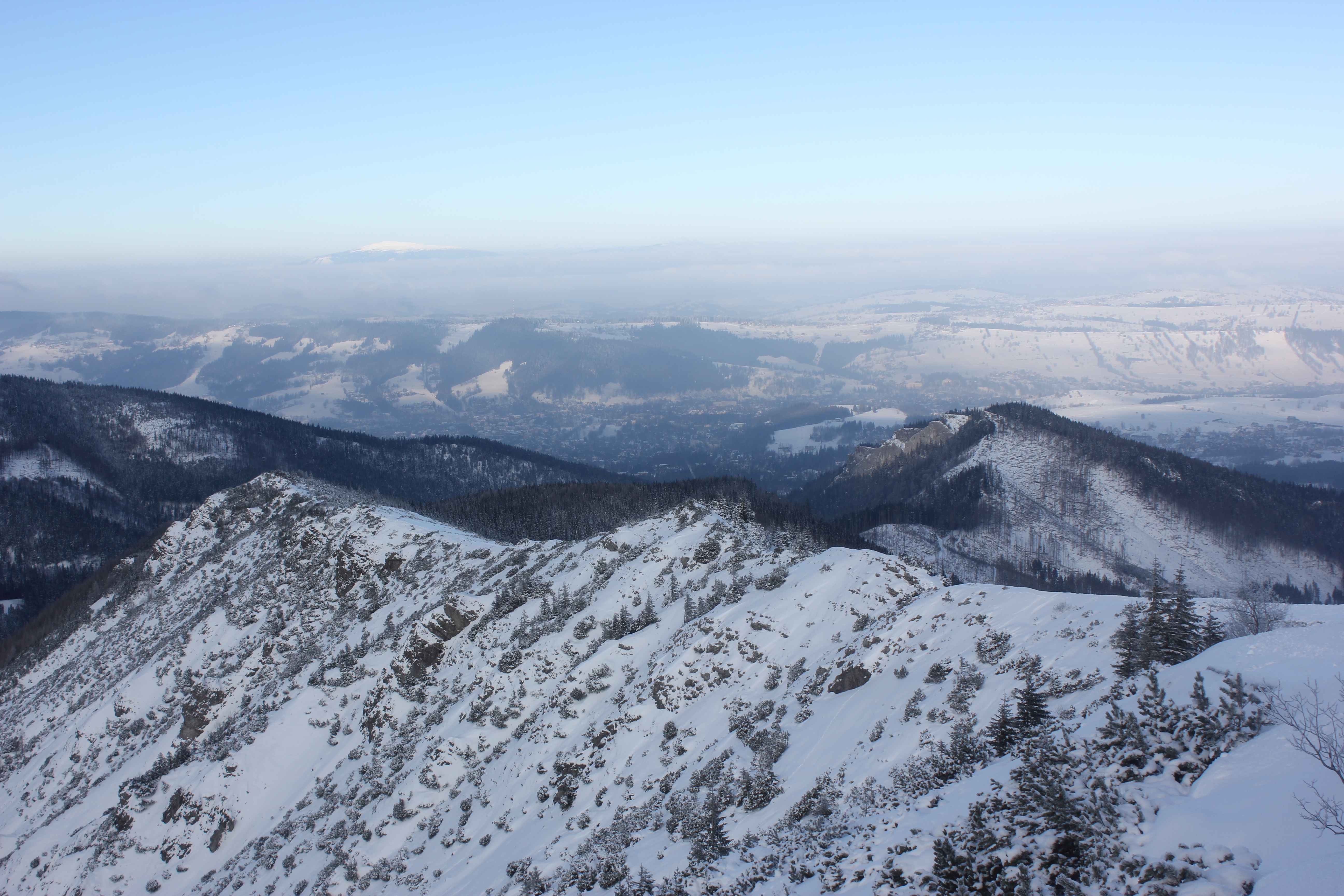 Skupniów Upłaz and Nosal - view from Przełęcz między Kopami